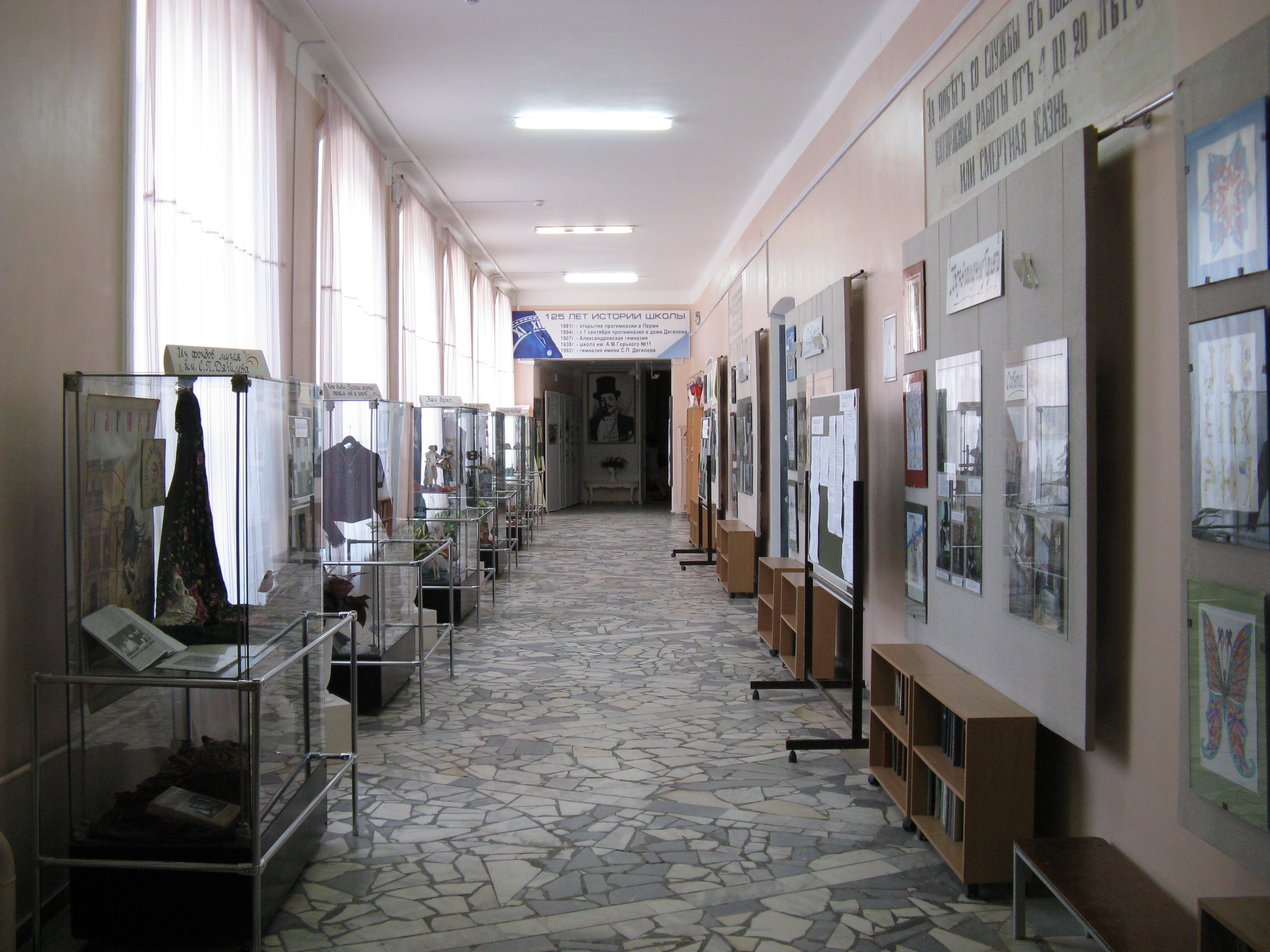 Diaghilev's museum in Diaghilev's House in Perm